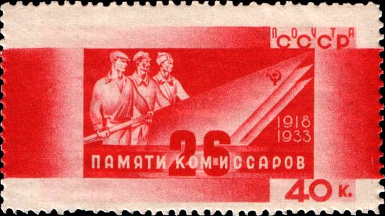 Stamps of the Soviet Union, 1933